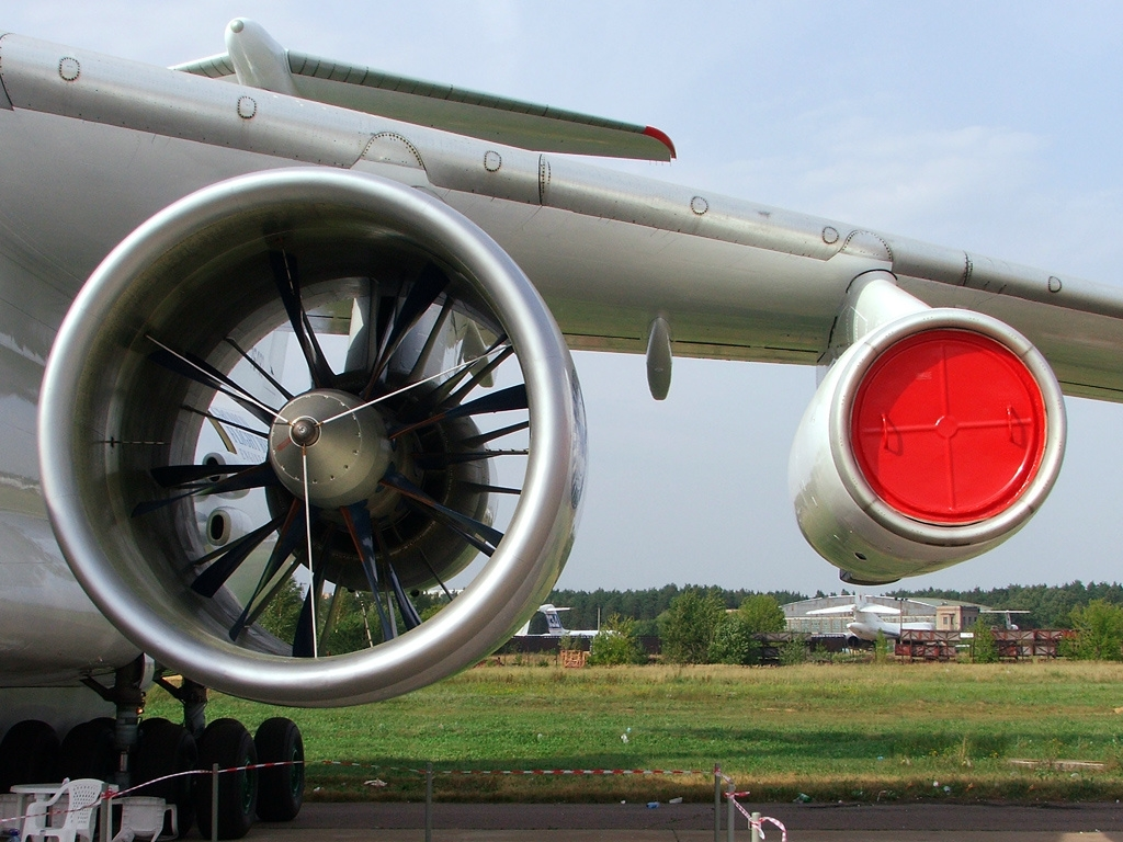 RA-76492 Flying laboratory for new engines researchings. Left one is new NK-93 engine, right one is typical D-30KP